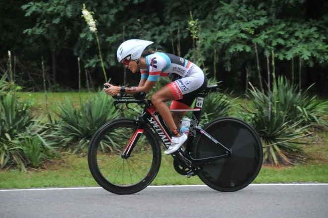 Natasha Mendez competing Ironman 70.3 in 2016